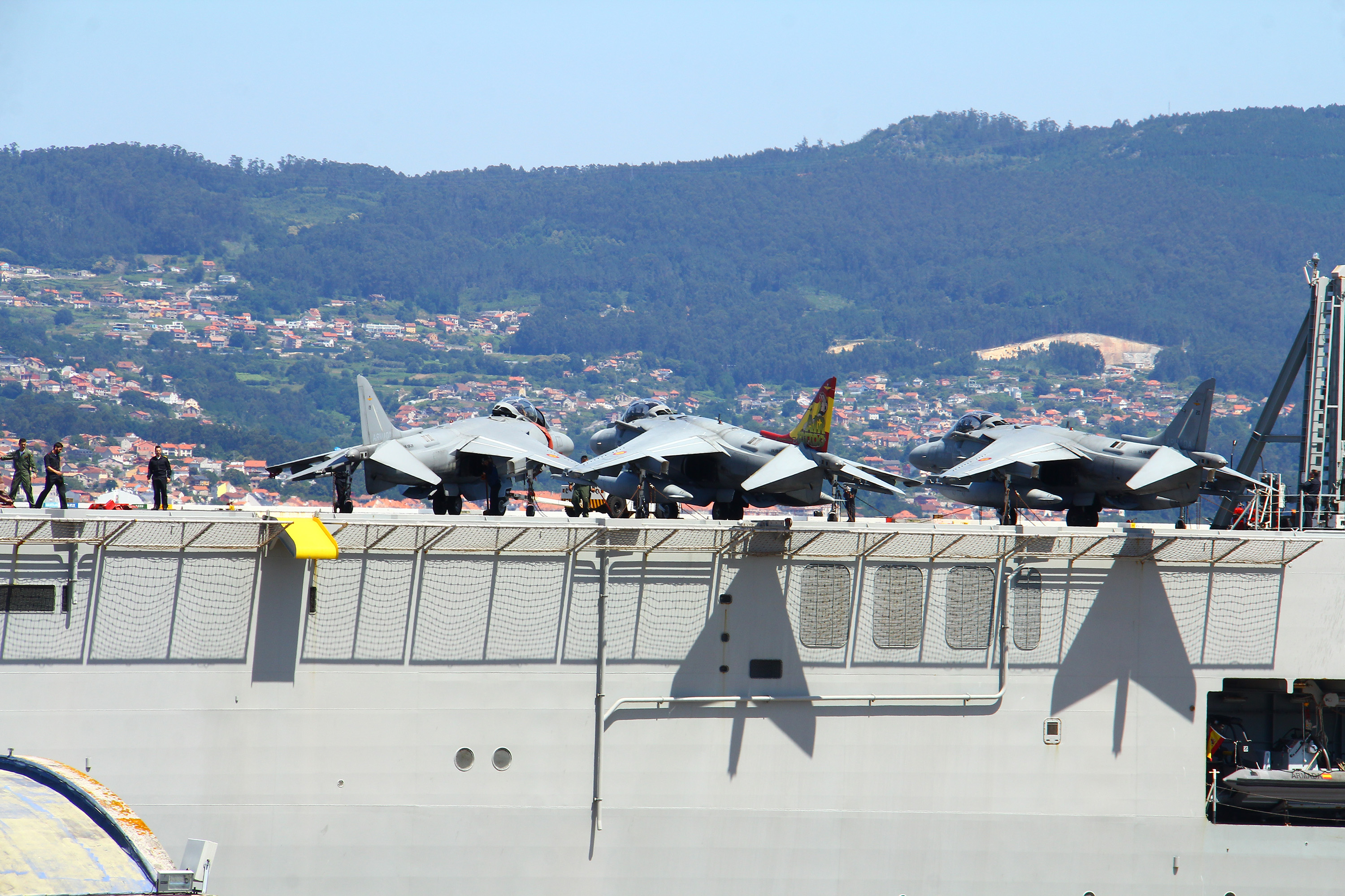 Despedida del portaaeronaves "Juan Carlos I" L-61 del Puerto de Vigo el martes 2 de julio de 2019. Partió de la ciudad en torno a las 14:00 horas. Un helicóptero OH-6 Cayuse, del destacamento que tiene la 6ª Escuadrilla de la Armada Española en la Escuela Naval Militar de Marín, sobrevoló varias veces el buque. "Juan Carlos I" L-61 departs from Vigo Farewell of the aircraft carrier "Juan Carlos I" L-61 of the Port of Vigo on Tuesday, July 2, 2019. She departed from the city at around 2:00 p.m. An OH-6 Cayuse helicopter, from the detachment of the 6th Spanish Navy Squadron at the Military Naval School of Marin, overflew the ship several times.